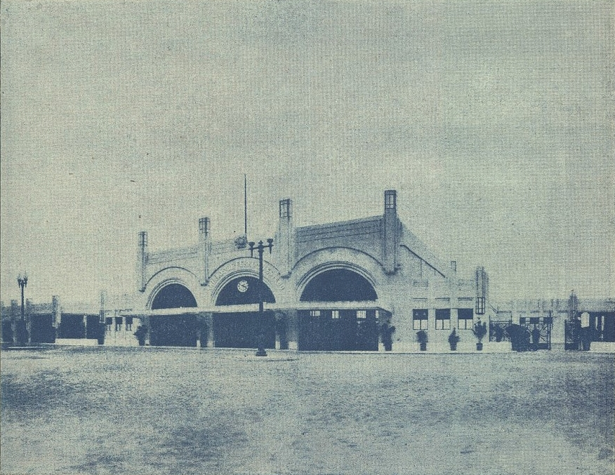 Main facade of the Sul e Sueste ferry terminal, in the city of Lisbon, in Portugal. It was inaugurated in 1932. This photograph was published on the Gazeta dos Caminhos de Ferro magazine No. 1086, of the 16th March 1933, and scanned by the Hemeroteca Municipal de Lisboa.